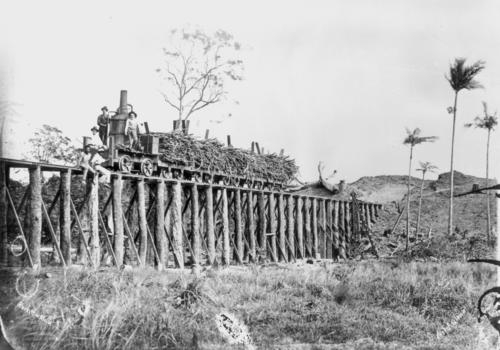 John Spiller's first steam engine Mary Ann built by Robertson & Co at the Victoria Foundry, Mackay, in 1880 crossing Fursden Creek. Or less likely: The Emma Ruth, John Spiller's first steam engine transporting rakes of sugar cane to Pioneer Mill, over Fursden Creek. Mackay region. (SLQld)